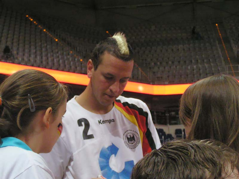 Pascal Hens, on June 10th, 2006 after the game Germany - Spain in Mannheim.